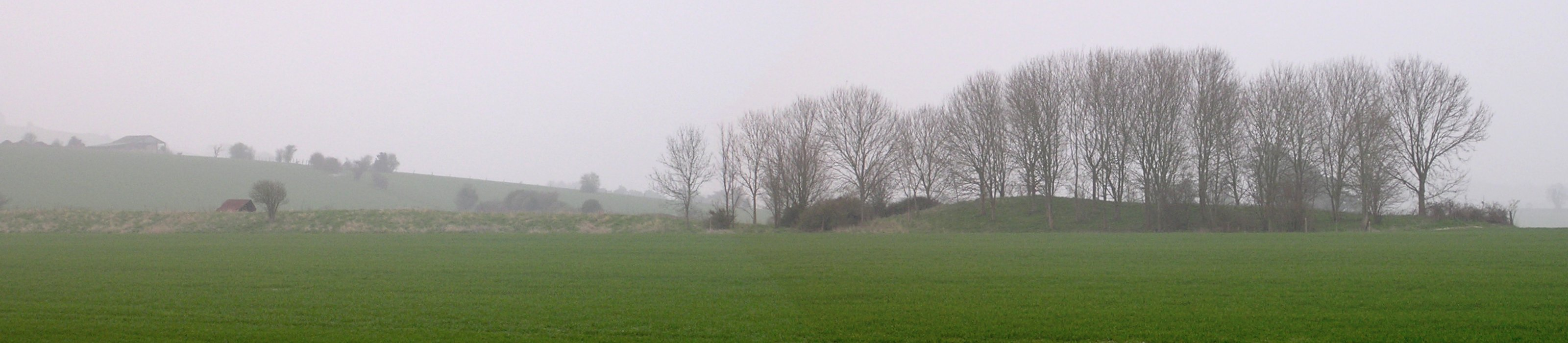 The Pentridge 2 long barrow, close to the Bokerley Dyke and the Dorset/Hampshire county border.